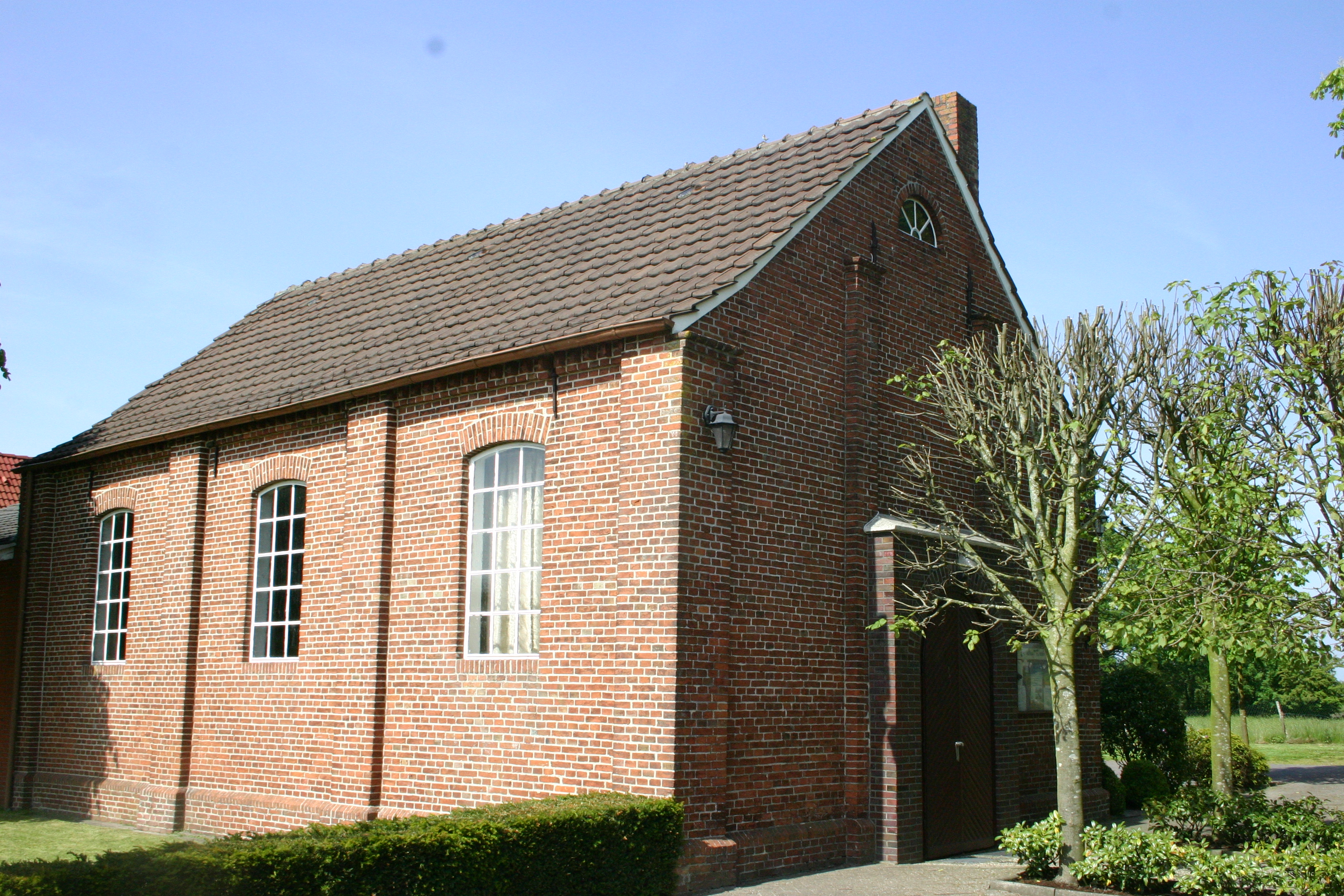 Historic church (old-ref.) in Neermoor, district of Leer, East Frisia, Germany